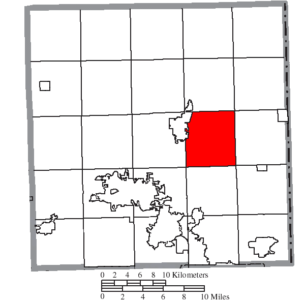 Map of the municipal and township boundaries of Trumbull County, Ohio, United States, as of the 2000 census, with the location of Fowler Township highlighted. Township borders are shown only in unincorporated areas in order to differentiate incorporated and unincorporated areas more clearly.